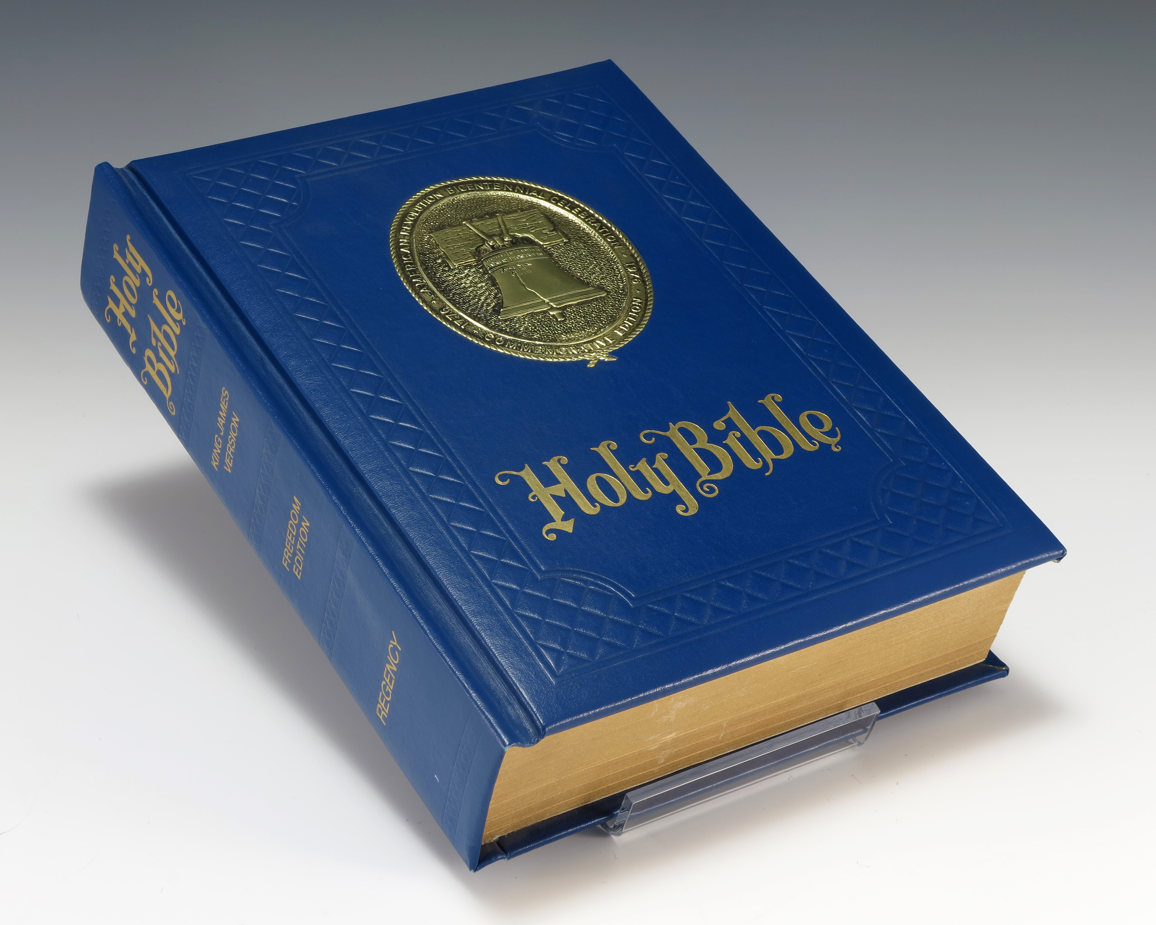 This Bicentennial commemorative edition of the Holy Bible titled the “Freedom Edition” consists of the King James Version of the bible with blue leather binding. The cover is embossed with an antiquated gold-tone Liberty Bell in an oval seal. It was published by the Regency Publishing house in Nashville, Tennessee.